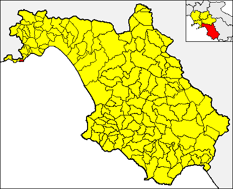 Locator map of the municipality of Conca dei Marini (red) within the Province of Salerno